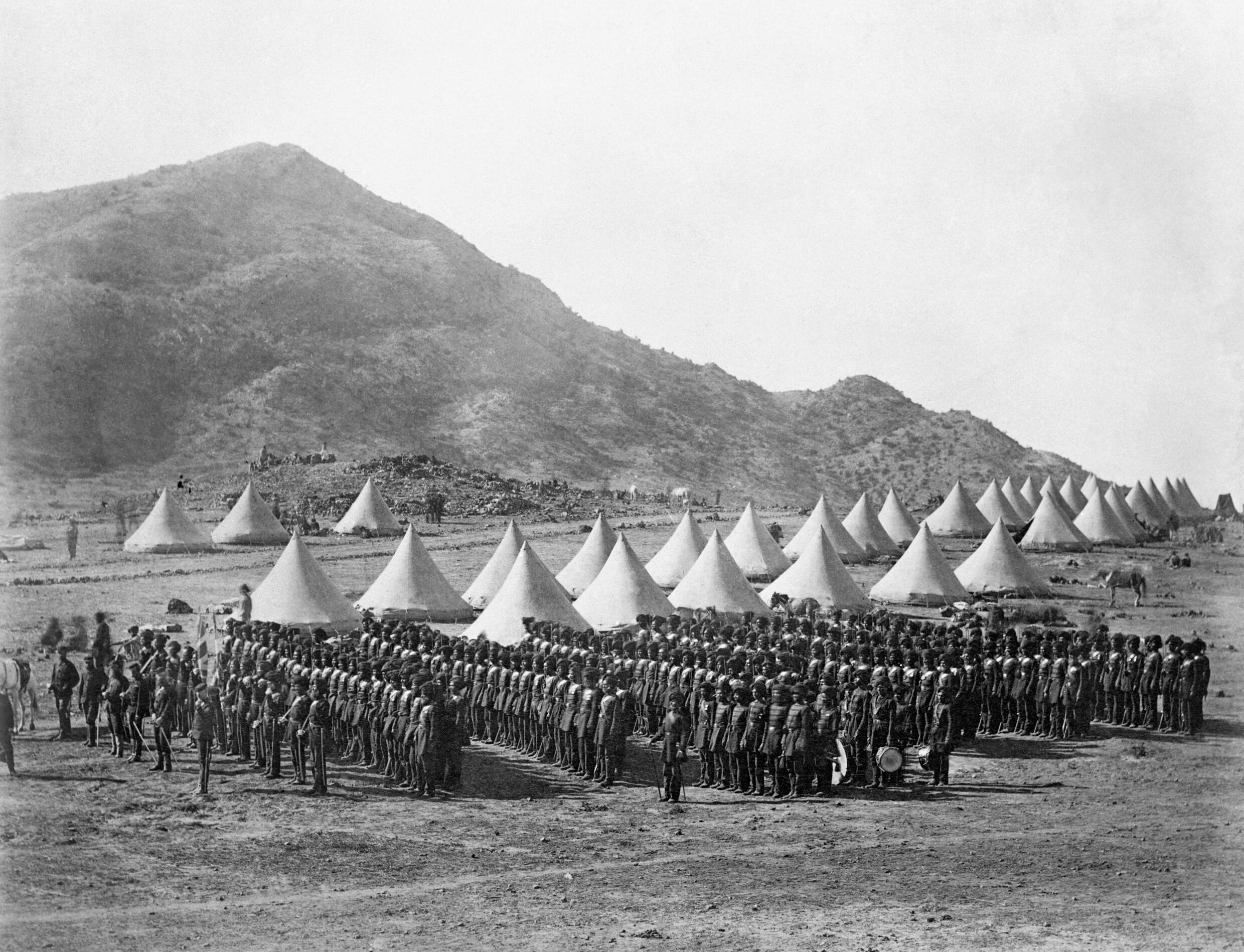 The Abyssinian Expedition, 1868 The Baluch Regiment parade in camp.